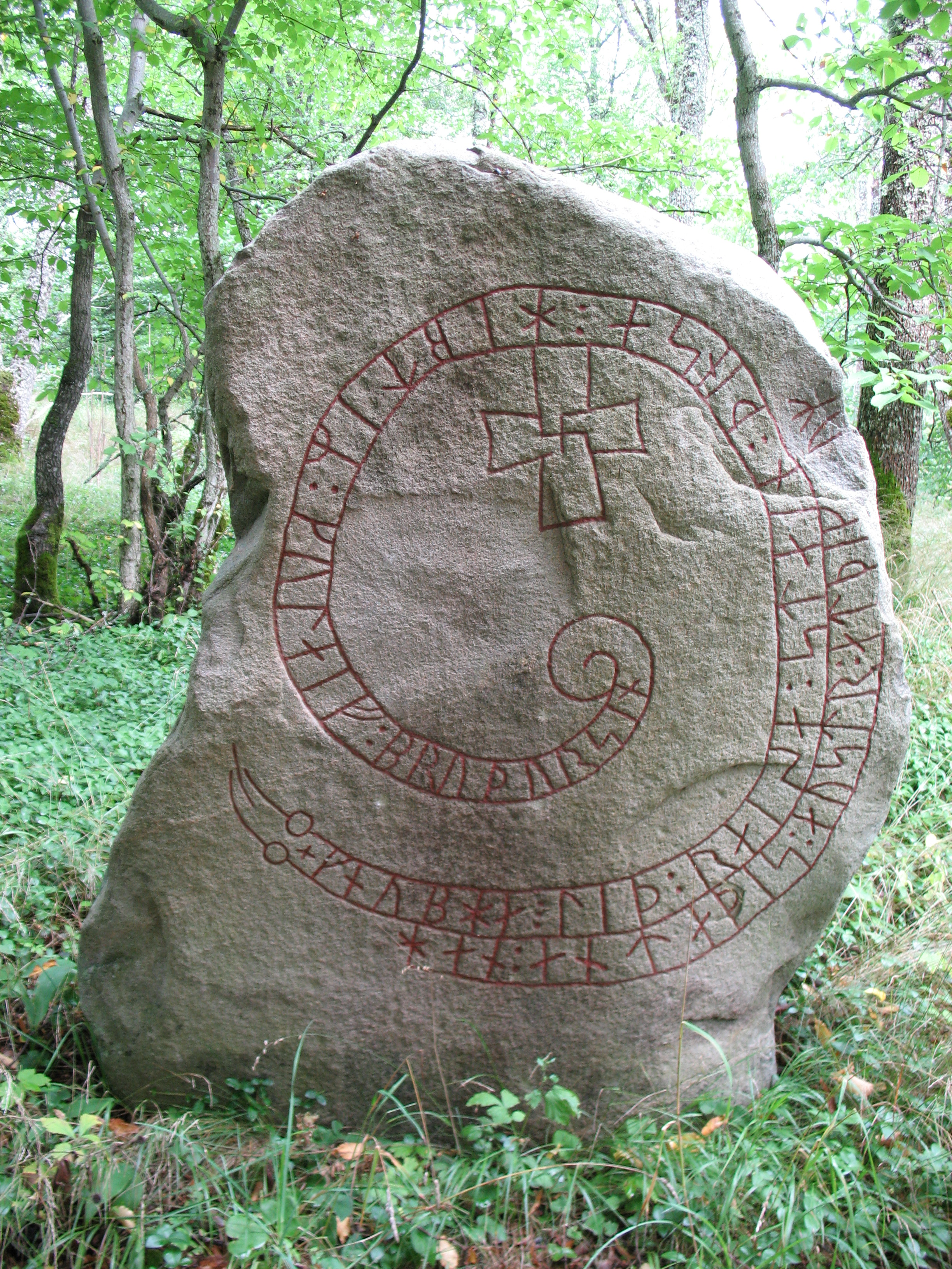 Runestones Sö 33 in Skåäng, Trosa municipality, Sweden.